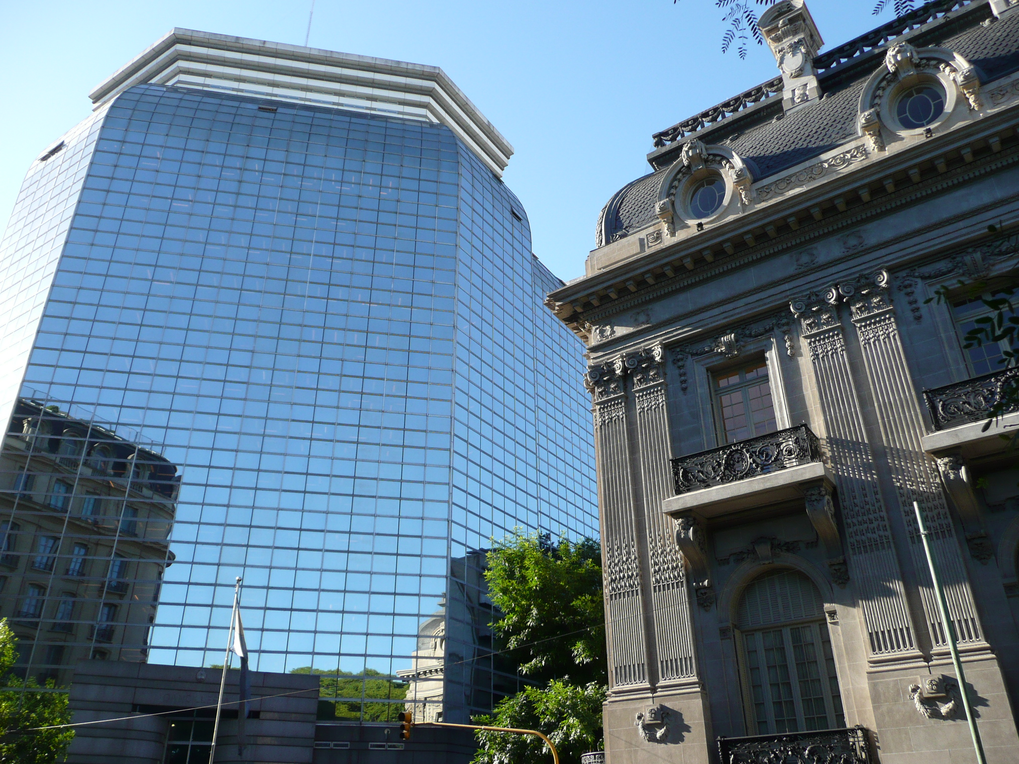 Argentina, Buenos Aires, Plaza San Martin, Av. Santa Fe